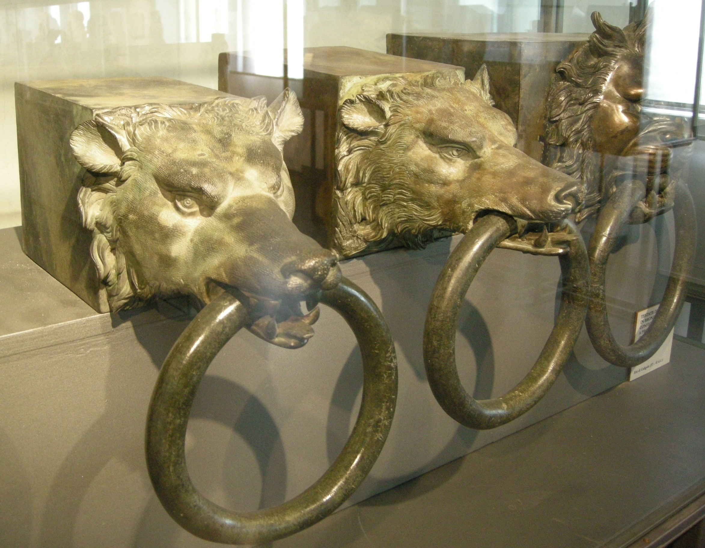 read filename pls